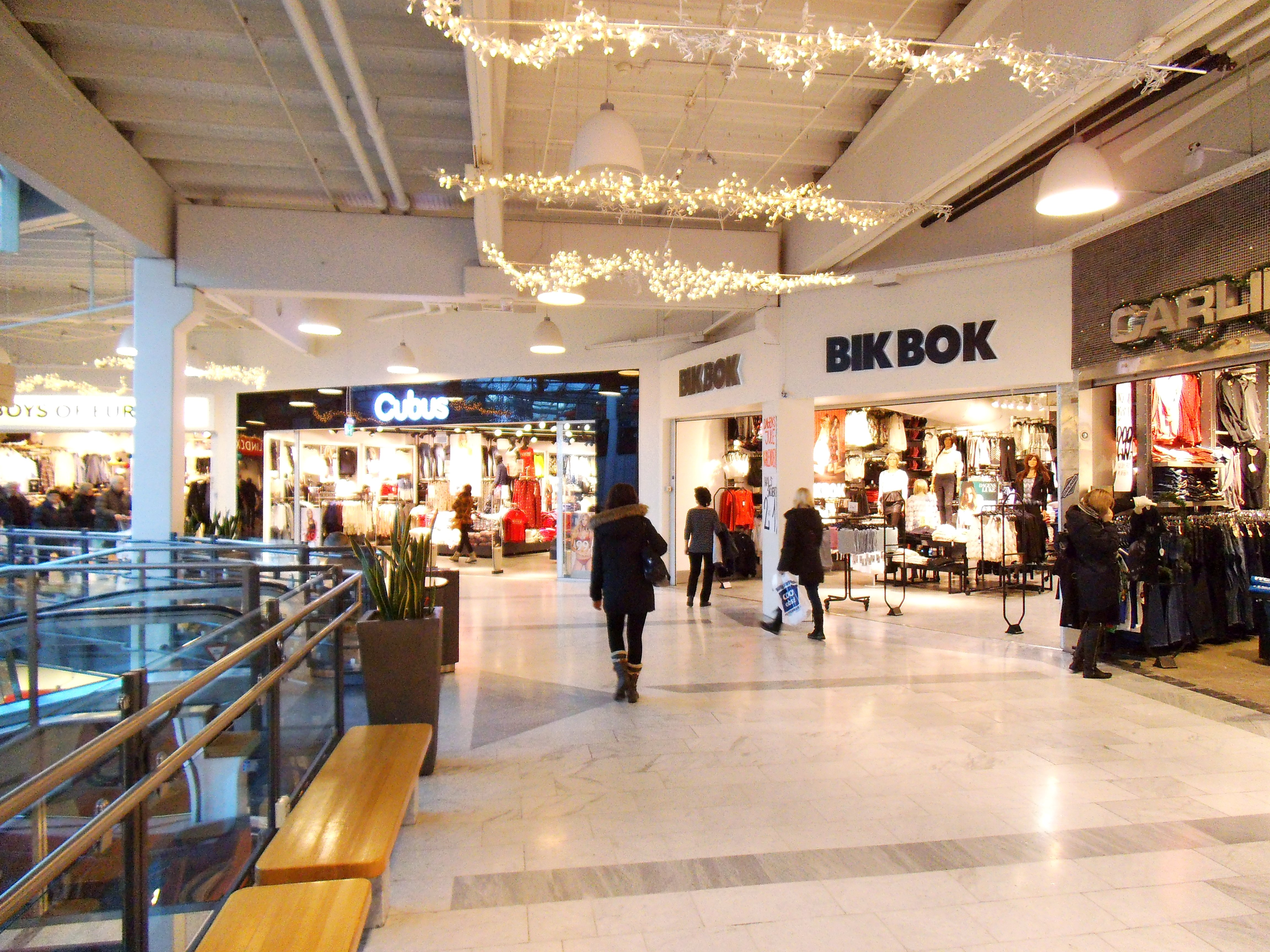 Interiors in City Syd, a chopping mall in Tiller, Trondheim. Second floor.